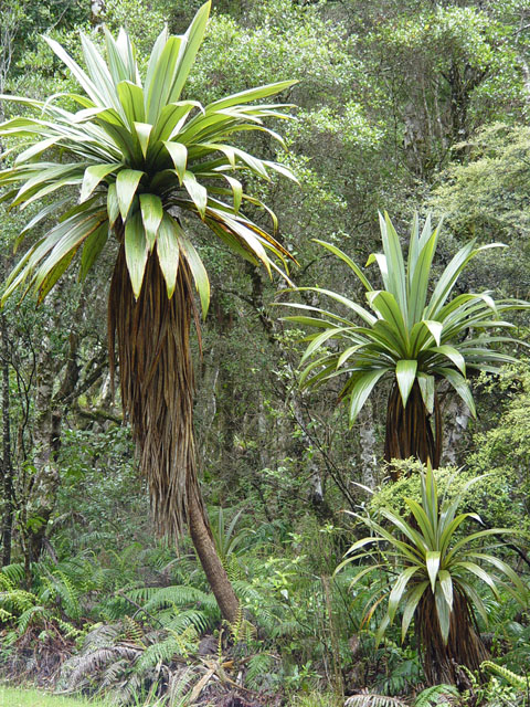 Cordyline indivisa along the southern approach to Mt. Ruapehu, North Island, New Zealand.